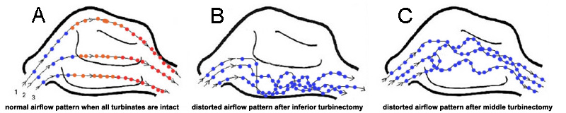 distorted airflow patterns and loss of heat transfer and humidification in ENS.